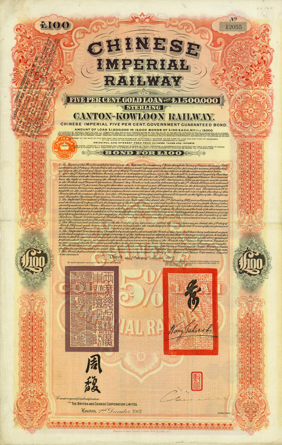 Photograph of 100 pounds sterling bond issued as part of loan for construction of the Chinese Section of the Canton-Kowloon Railway (CKR)